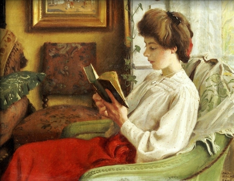 A good book